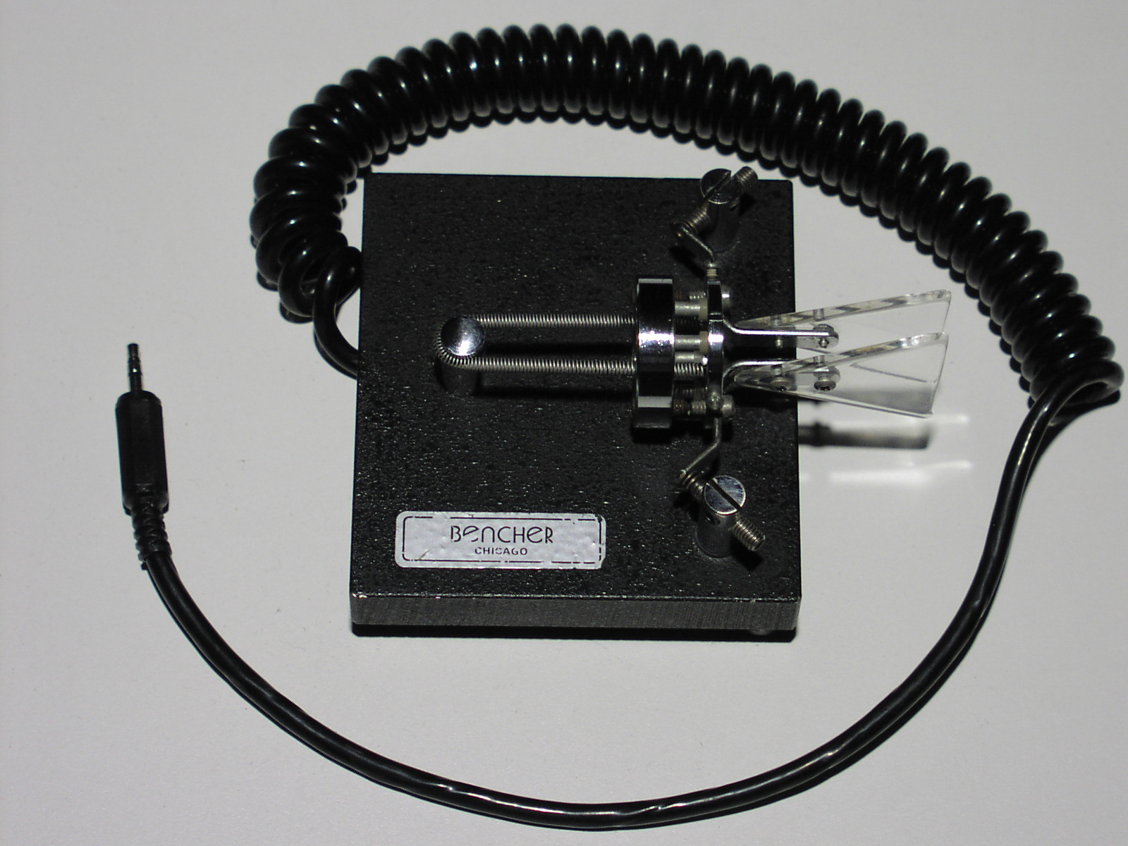 Bencher Paddles, fitted with a mini-audio connection. Permission is granted by Mark Fickett (the photographer and Bencher owner) to use, modify, and distribute this image so long as attribution to him is maintained. (Notification upon use is requested but not required.)